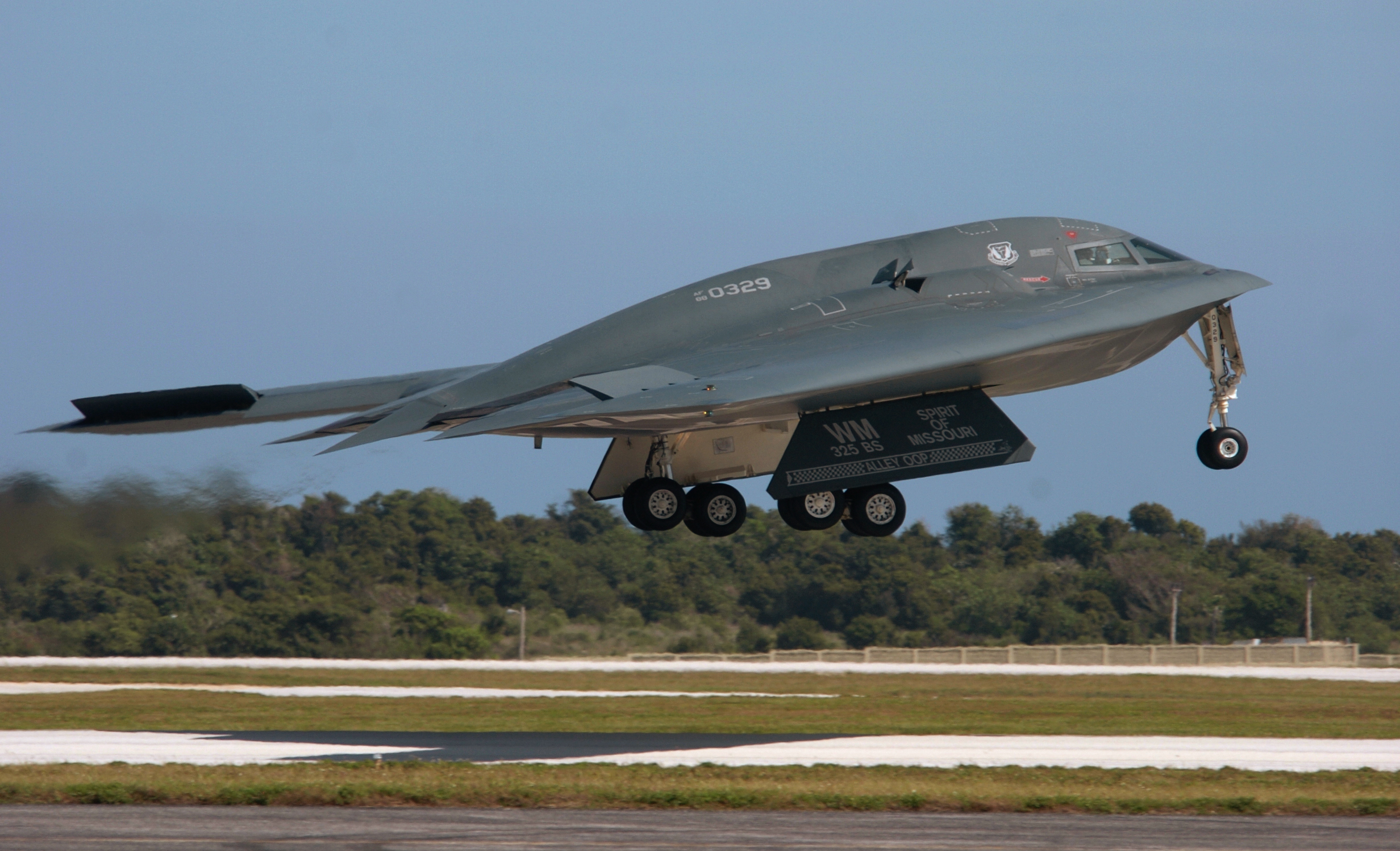 ANDERSEN AIR FORCE BASE, Guam -- A B-2 Spirit bomber, from the 509th Bomb Wing at Whiteman Air Force Base, Mo., takes off for a mission during an air and space expeditionary force deployment here. The B-2s deployed here Feb. 25 to provide U.S. Pacific Command officials a continuous bomber presence in the Asia-Pacific region, enhancing regional security and the U.S. commitment to the Western Pacific. Bomber aircraft have had an ongoing presence on the island since February 2004. (U.S. Air Force photo by Master Sgt. Val Gempis)